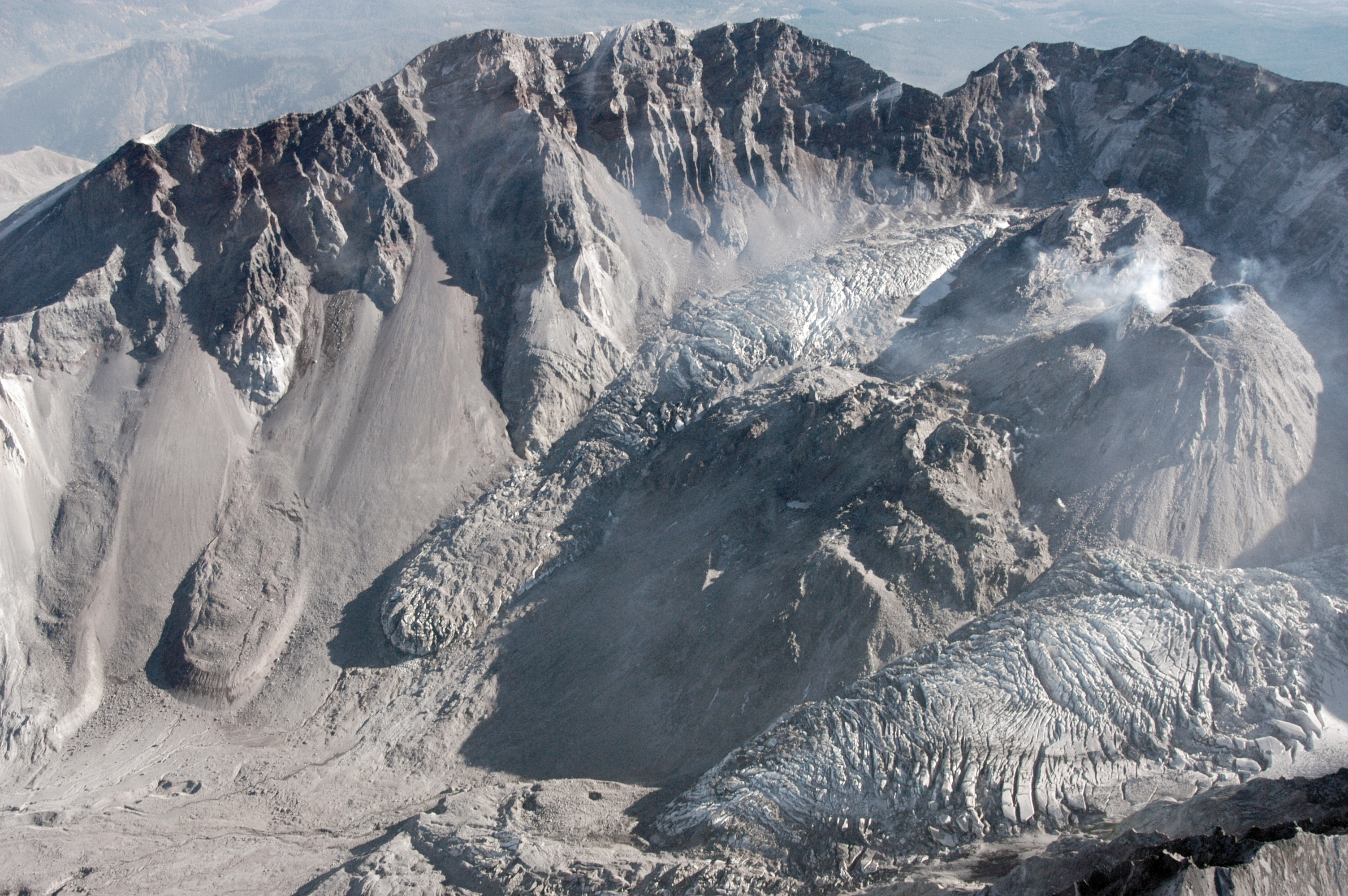 Tulutson Glacier on Mount Saint Helens